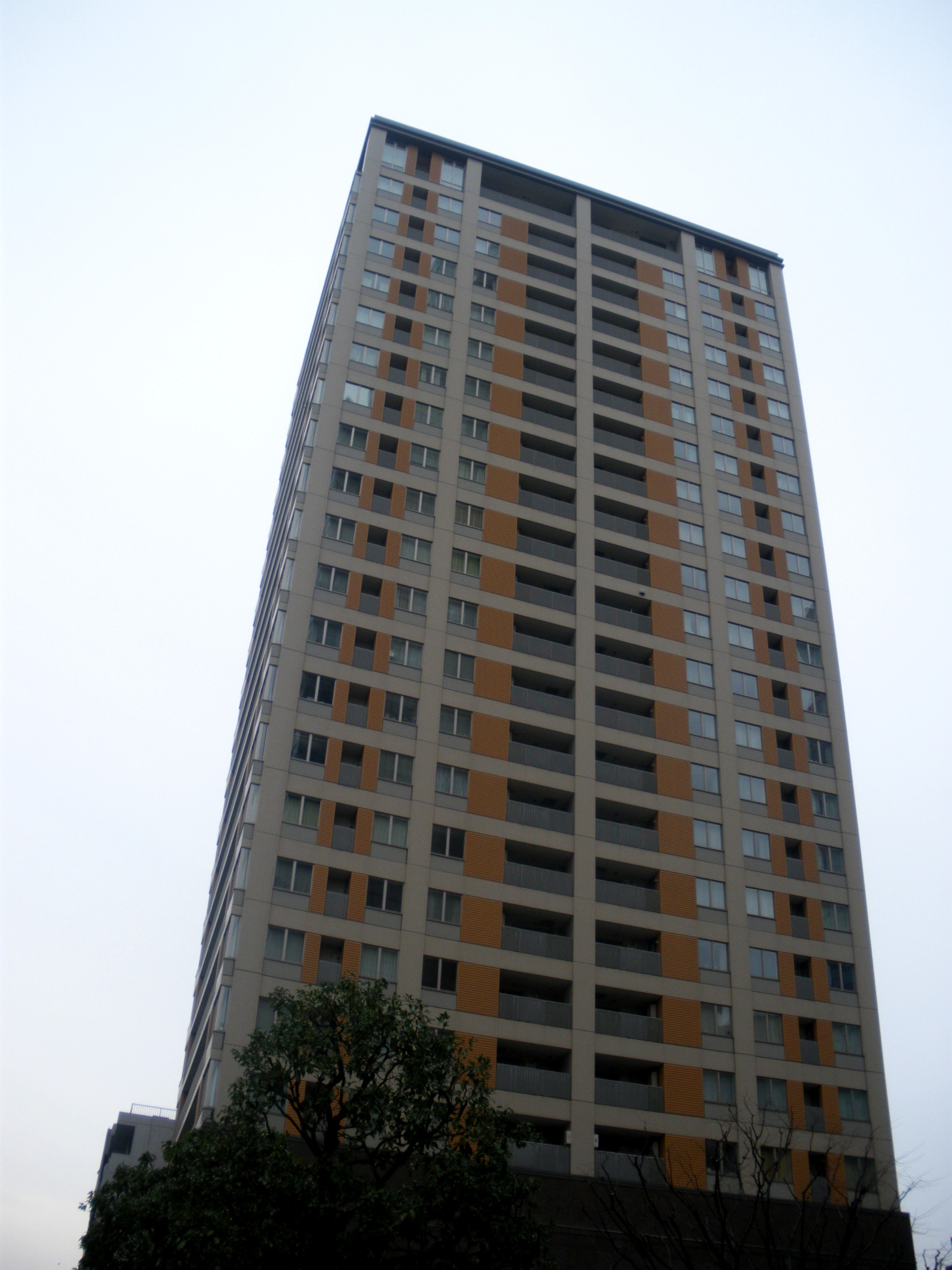 A photo of Sunwood Shinagawa Tennouzu Tower.Higashishinagawa,Shinagawa-ku,Tokyo,Japan.